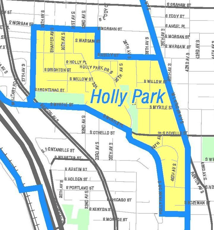 Map of the Holly Park (now NewHolly) neighborhood. Like the other maps from the Seattle City Clerk's Neighborhood Map Atlas, this is not an official map; in particular, borders are not official. Disclaimer: The Seattle Neighborhood Atlas, which the Seattle Clerk's Office has placed in the public domain (as confirmed by OTRS ticket 2008033110016048) contains some general commentary on the maps, "About Maps", which should typically be linked as an accompaniment to these maps to (in their words) "minimize the numerous 'complaints' or comments by users who feel it necessary to point out how the Clerk's Office is 'wrong' about a certain section of town." In particular, "About Maps" says that the atlas "is designed for subject indexing of legislation, photographs, and other documents in the City Clerk's Office and Seattle Municipal Archives" and "is not designed or intended as an 'official' City of Seattle neighborhood map. There are many different ideas of what neighborhood districts exist in Seattle and what their names are…"